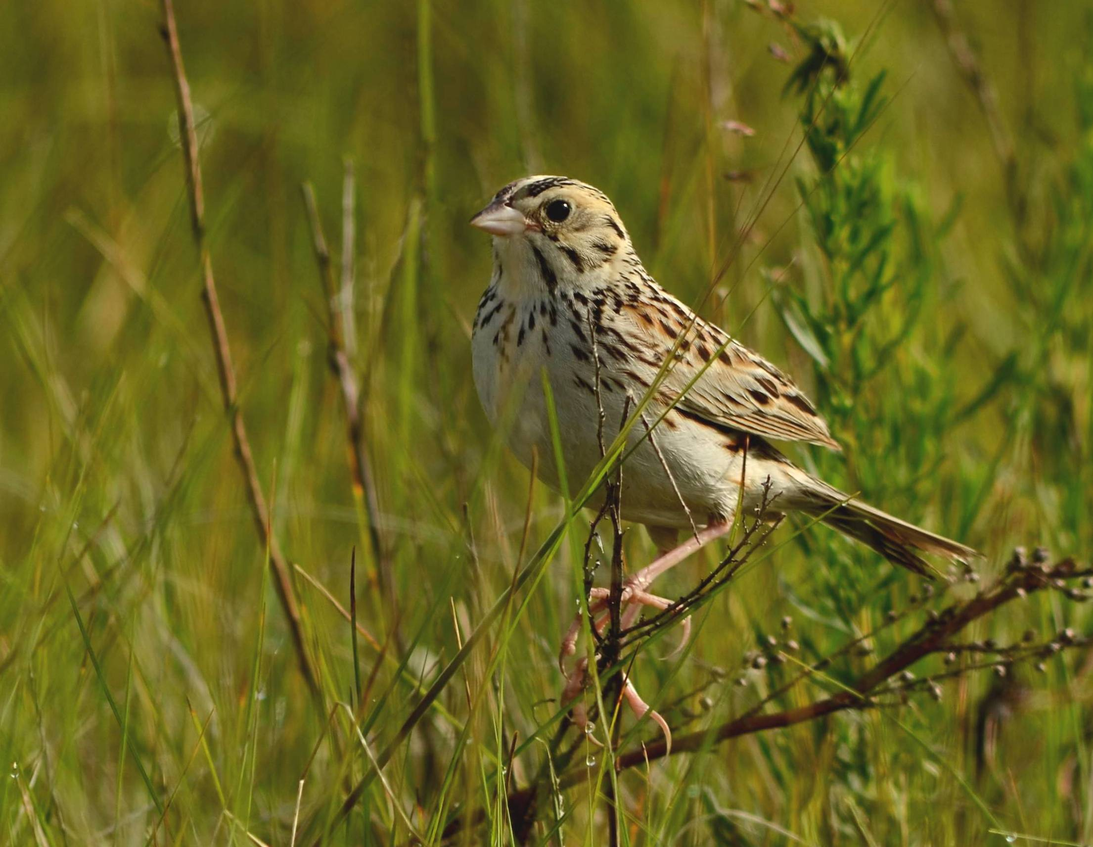 Rare and elusive, Baird's sparrow breeds in the vanishing grasslands of the Prairie Pothole Region. Secretive in nature, the bird lies low in tall grasses, its presence revealed only by its distinctive song. Photo Credit: Rick Bohn